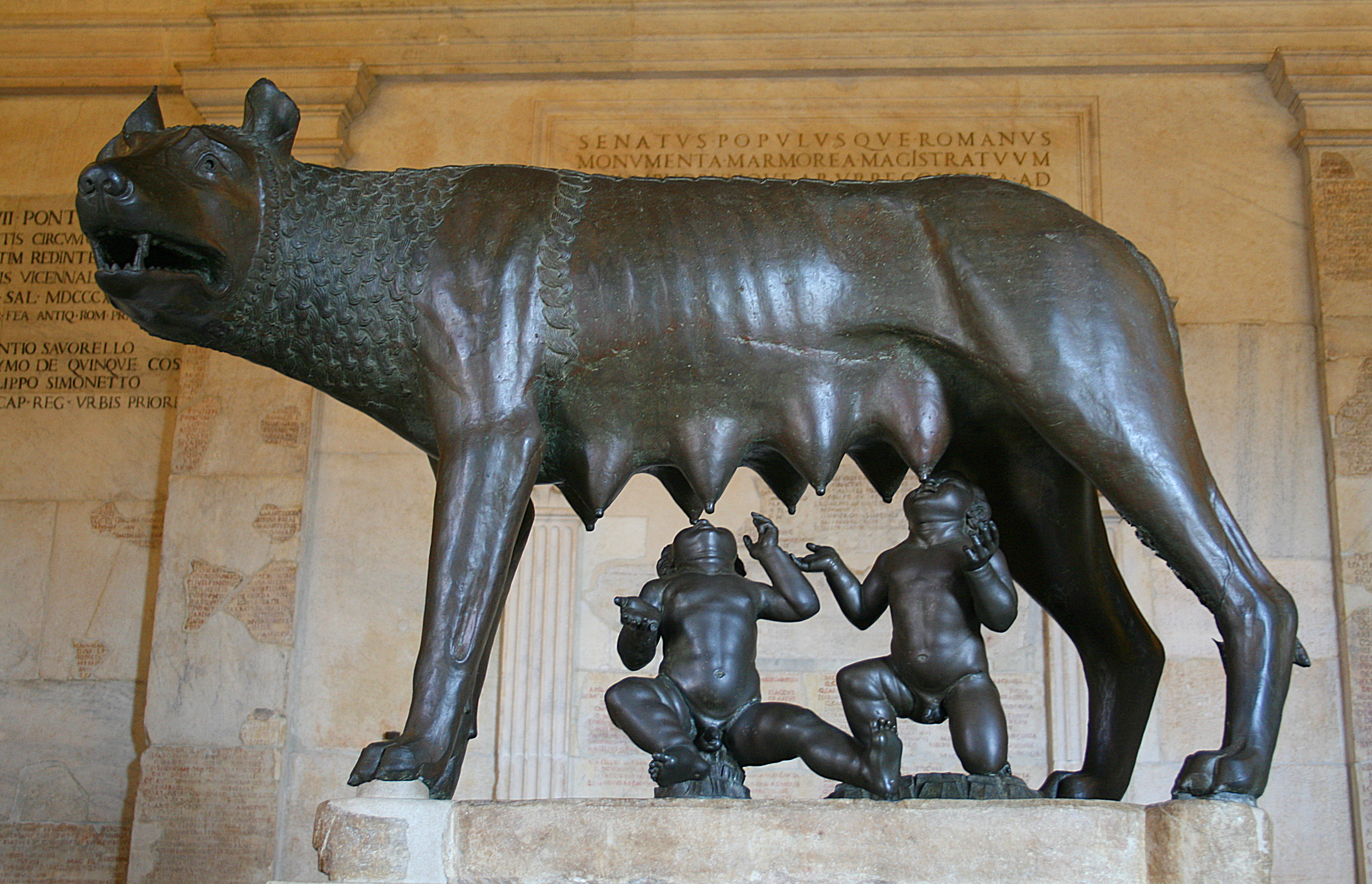 Lupa Capitolina: she-wolf with Romulus and Remus. Bronze, 12th century AD[1], 5th century BC (the twins are a 15th-century addition).